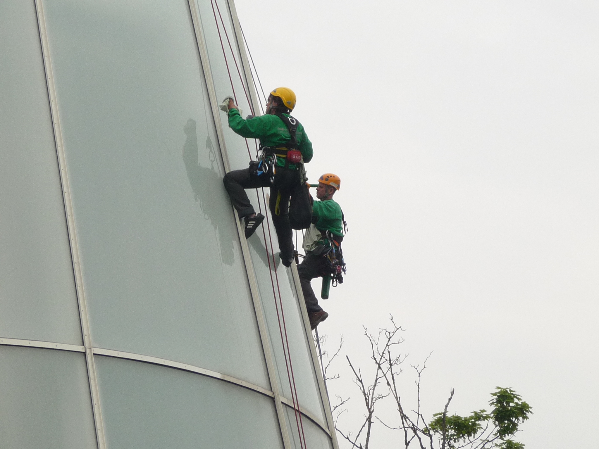 Arp Museum Bahnhof Rolandseck; Cleaning workers